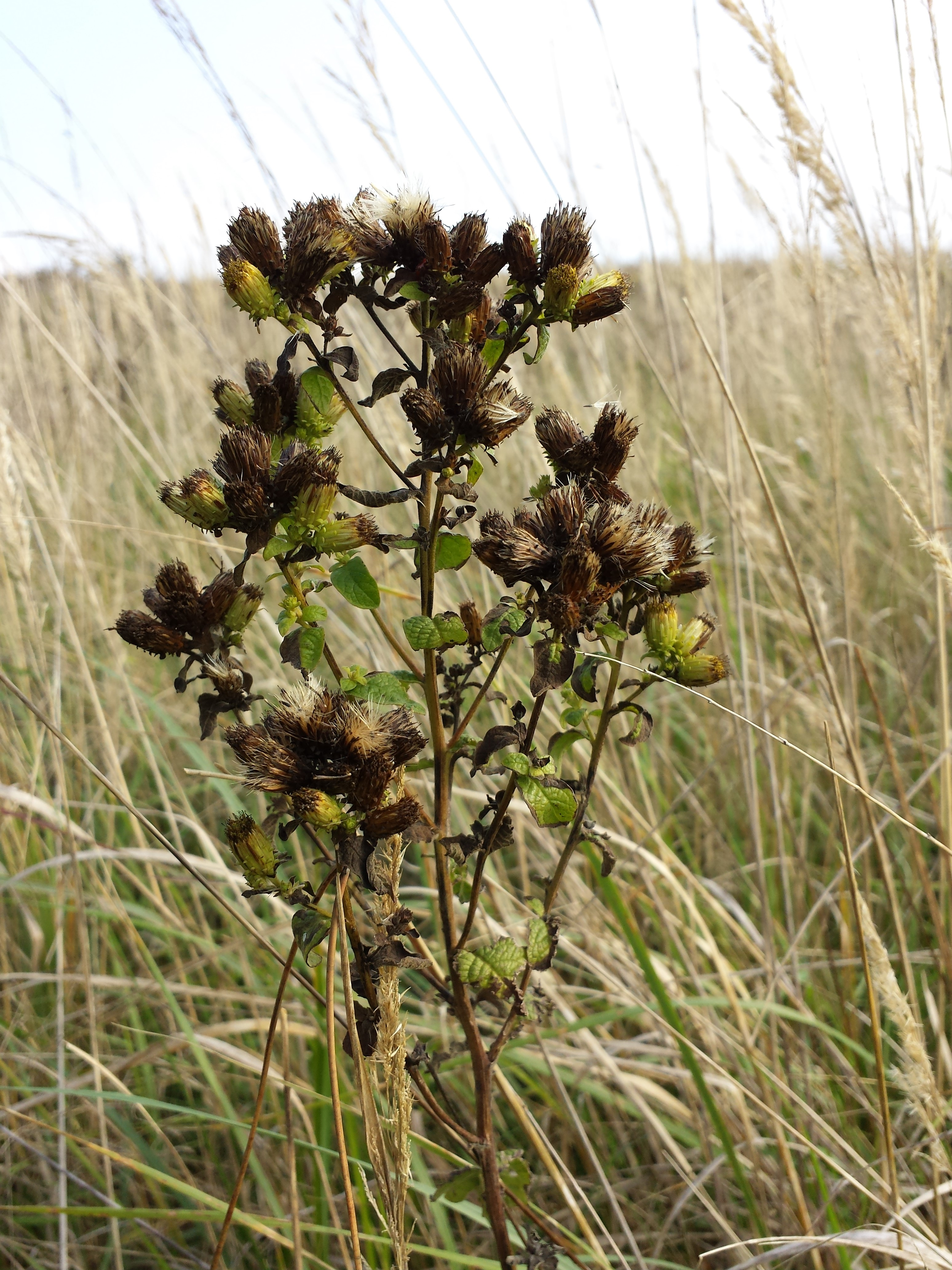 Infructescence Taxon: Inula conyzae (sensu Fischer et al. EfÖLS 2008 ISBN 978-3-85474-187-9) Location: "In der Hölle" SE Wetzleinsdorf, district Korneuburg, Lower Austria - ca. 275 m a.s.l. Habitat: dry grassland (disturbed)